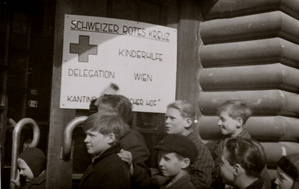 Swiss Red Cross: Food for children in Vienna.